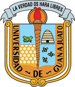 Coat of arms of the University of Guanajuato